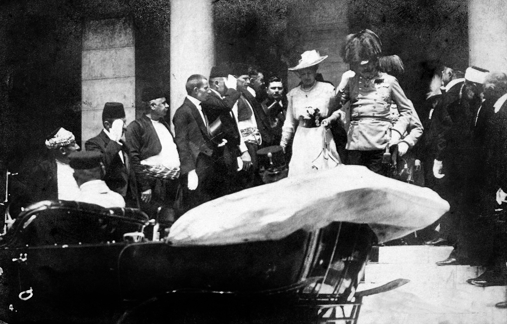 Franz Ferdinand and his wife Sophie leave the Sarajevo Guildhall after reading a speech on June 28 1914. They were assassinated five minutes later.